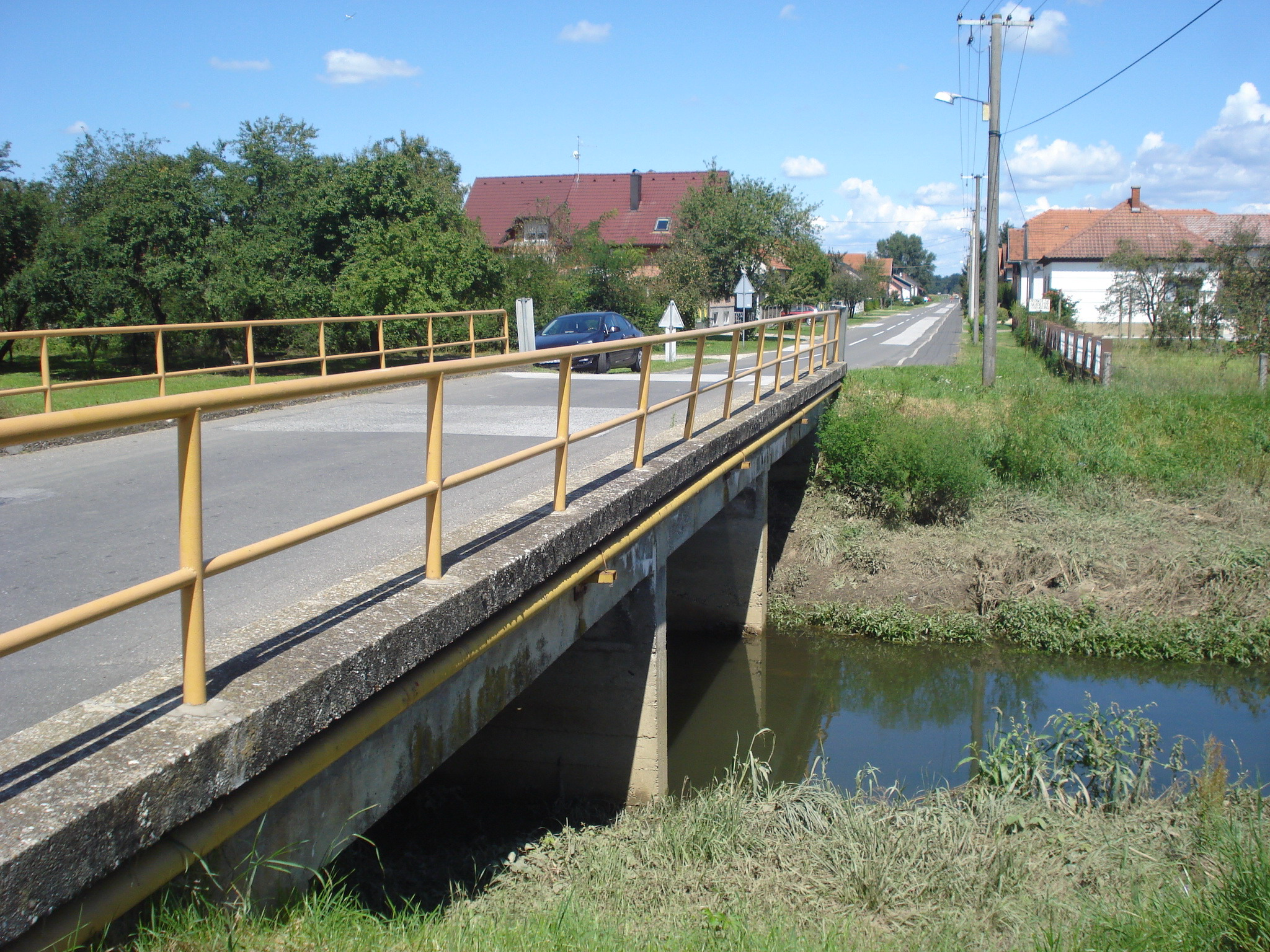 Road bridge over the Trnava river in Mala Subotica, Međimurje County, CroatiaHrvatski: Cestovni most na rijeci Trnavi u Maloj Subotici, Međimurska županija, Hrvatska